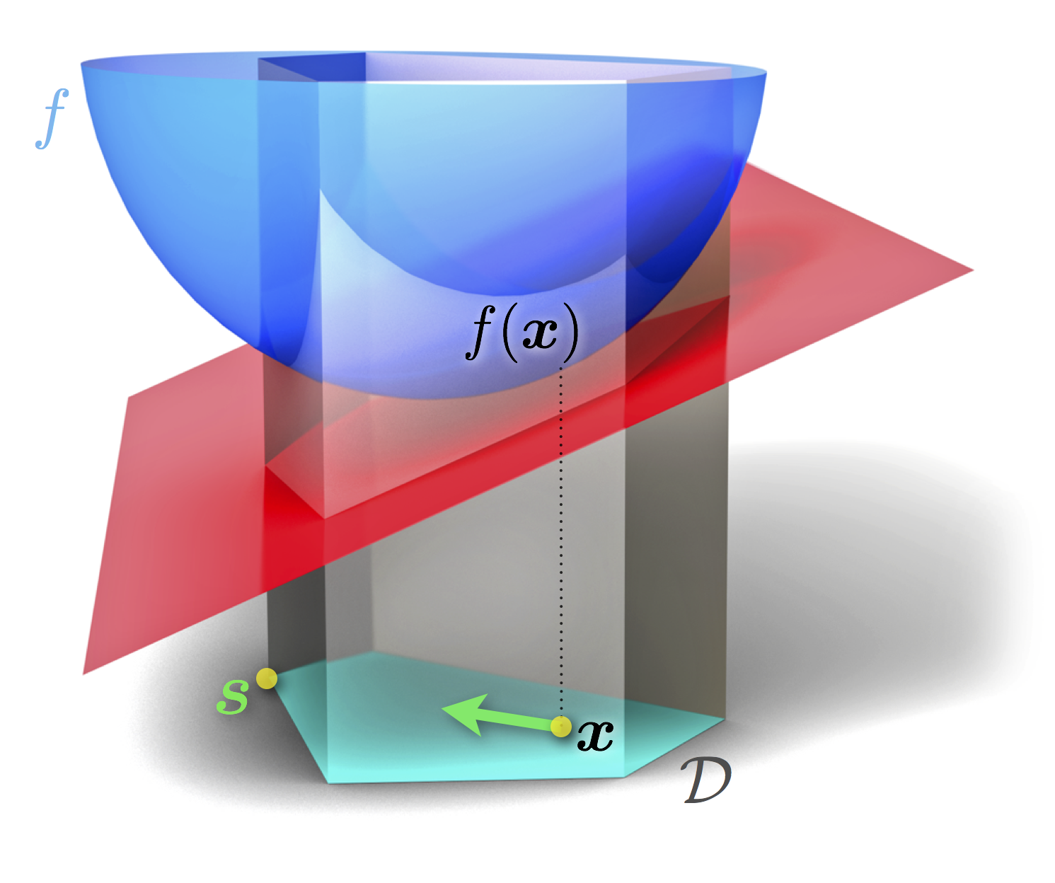 Frank-Wolfe algorithm - Visualization of a step of the Frank-Wolfe algorithm, applied to the problem of minimizing a convex function (blue) over a 2-dimensional bounded convex set D (green). The linearization to the objective function f at the current iterate x is shown in red.